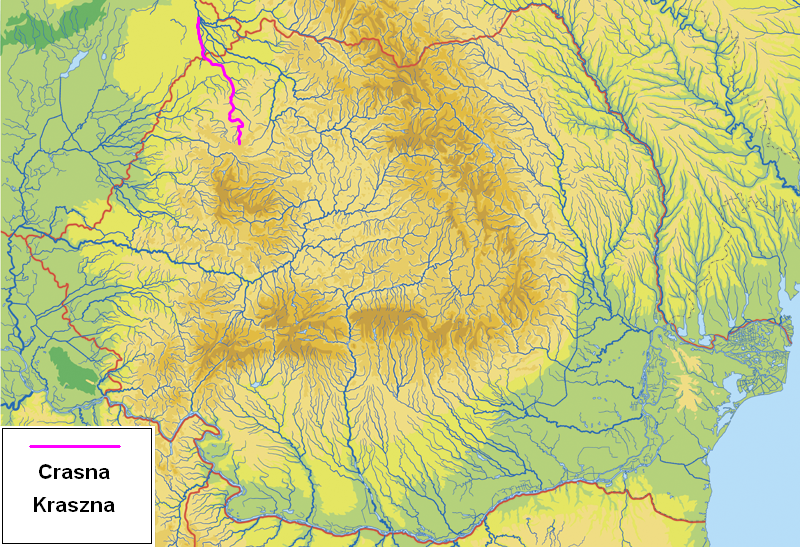 Map of Romania with Crasna River.